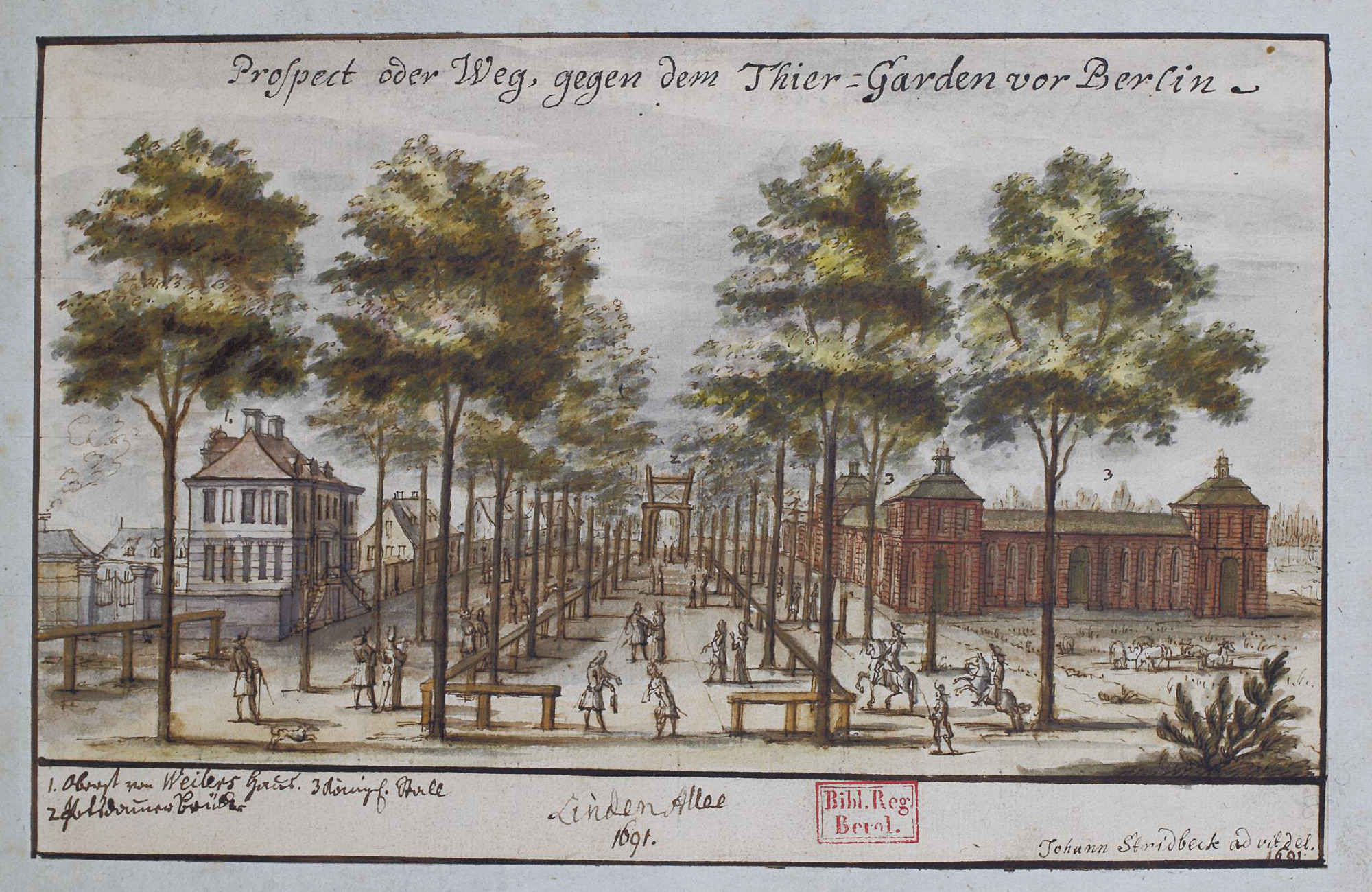 Early view of the "Lindenallee", the later boulevard "Unter den Linden" in Berlin. Water-colour.